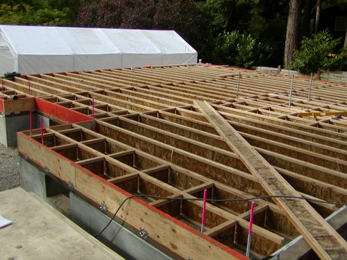 "The first floor is made up of [engineered] joists. They are a manufactured wood product that are stronger, straighter, and less resource intensive than dimensional lumber."